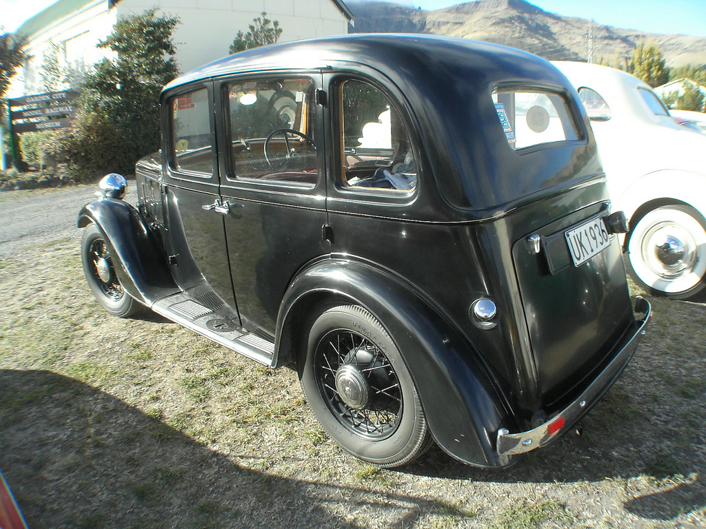 Six light four door saloon